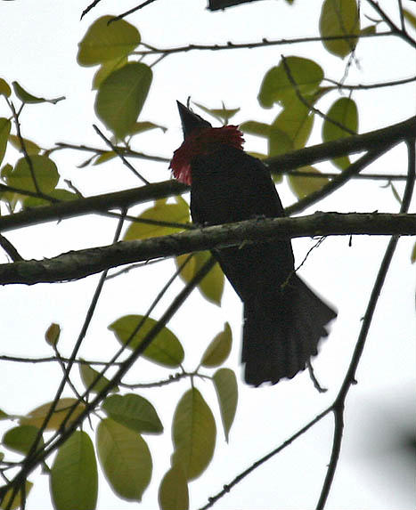 Purple-throated Fruitcrow (Querula purpurata). A male in Rio Silanche (PVM), NW Ecuador.